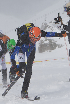 Manfred Reichegger at the 2nd Palaronda SkiAlp, 2010